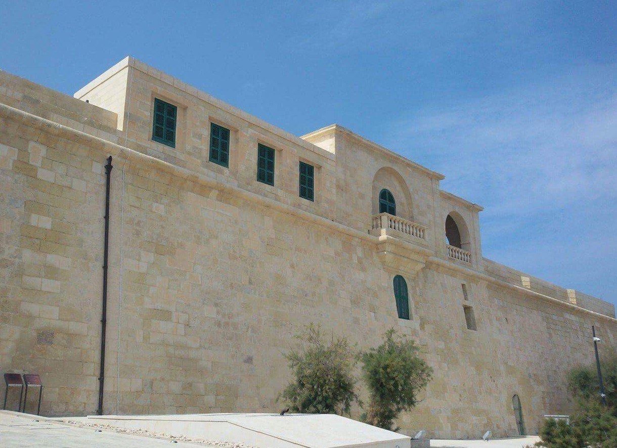 Fort Saint Elmo - left arm This media is about Maltese cultural property with inventory number 1689.